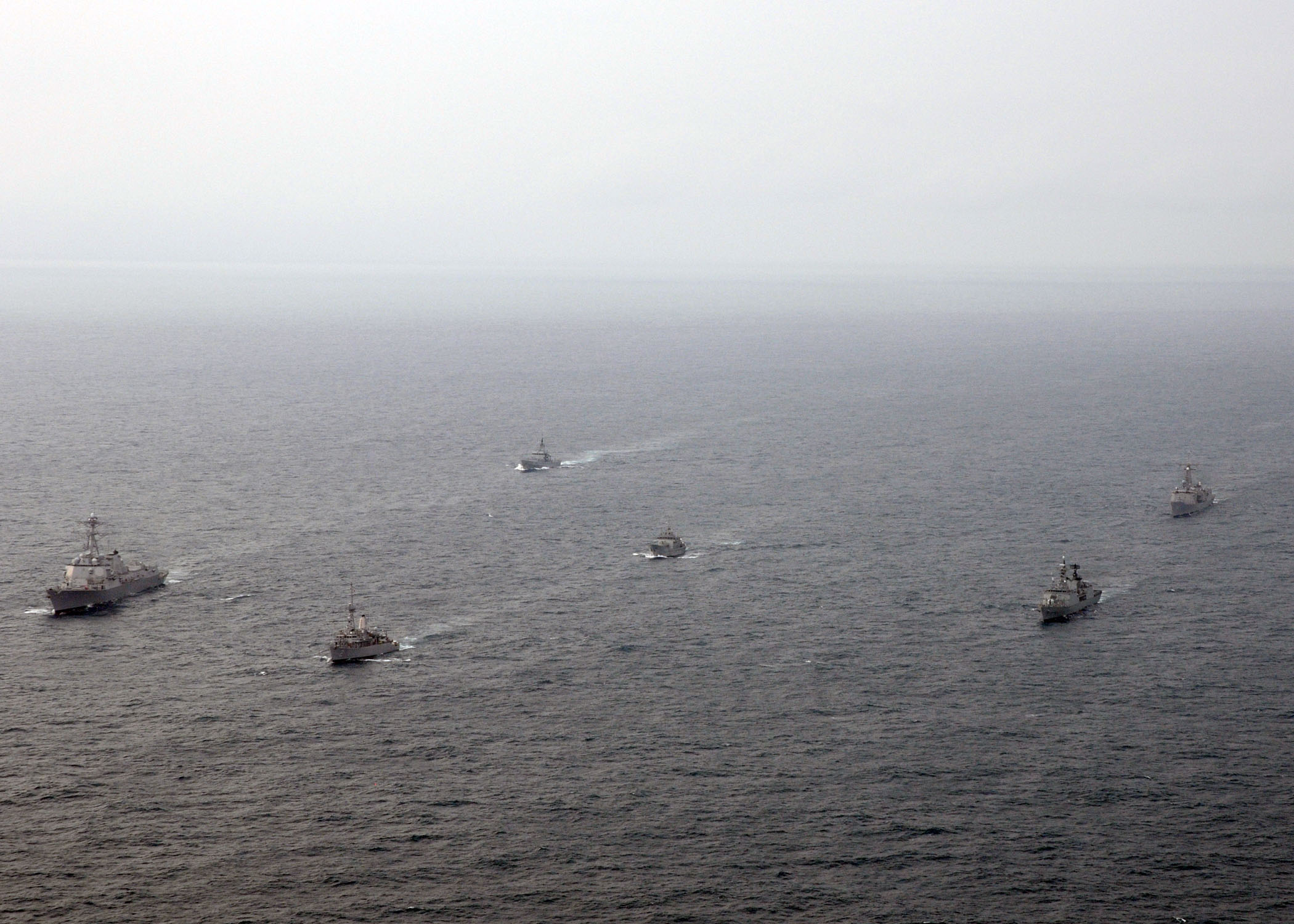 BAY OF BENGAL (Sept. 22, 2011) Ships from the U.S. and Bangladesh Navies transit as part of the sea phase of Cooperation Afloat Readiness and Training (CARAT) Bangladesh 2011. U.S. ships participating in this exercise include the guided-missile destroyer USS Kidd (DDG 100), the mine countermeasures ship USS Defender (MCM 2) and the guided-missile frigate USS Ford (FFG 54). CARAT is a series of bilateral exercises held annually in Southeast Asia to strengthen relationships and enhance force readiness. (U.S. Navy photo by Mass Communication Specialist 2nd Class Jessica Bidwell/Released)